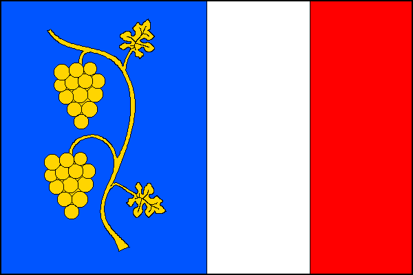 Municipal flag of Šardice village, Hodonín District, Czech Republic.